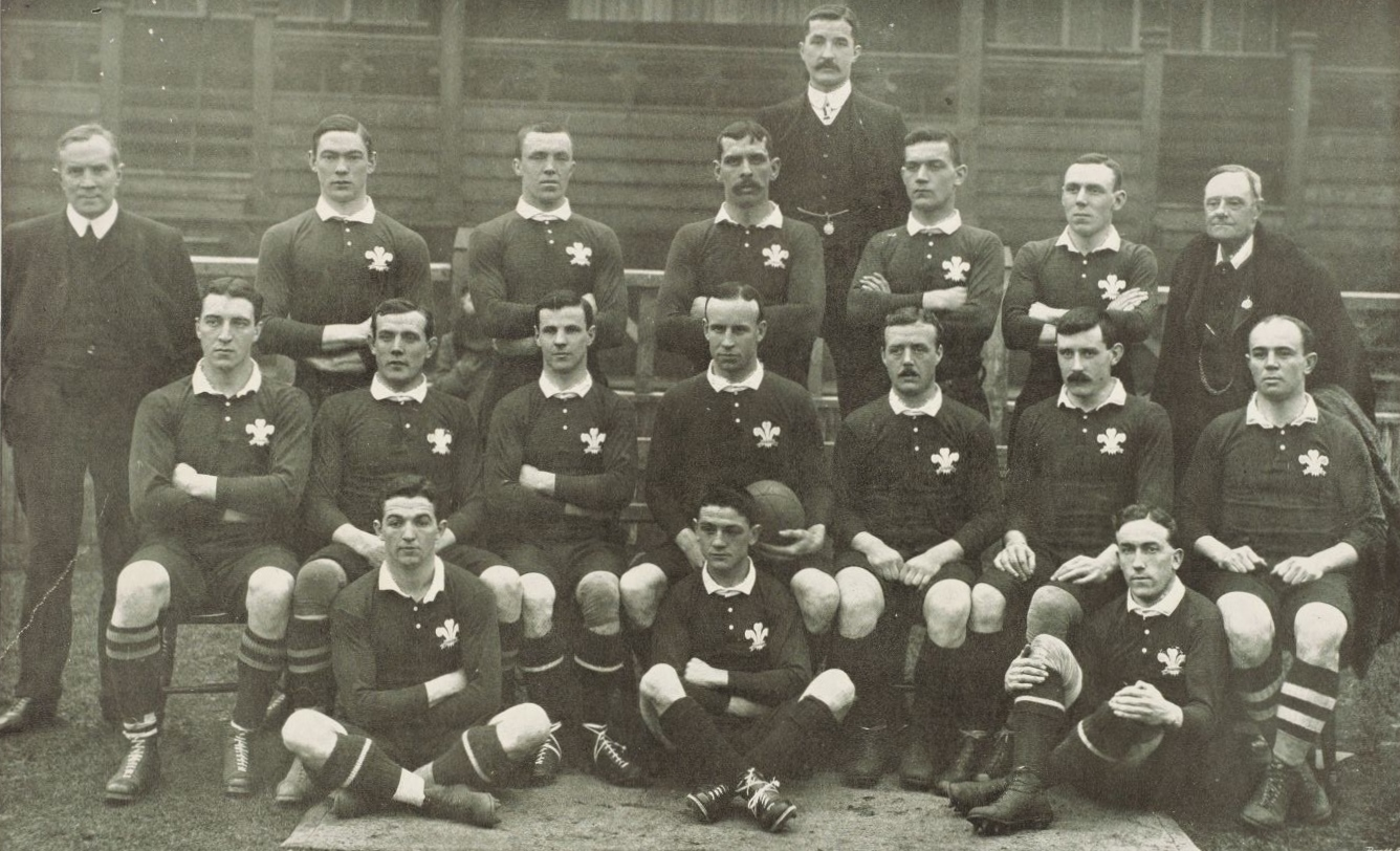 The Wales national rugby union team that defeated the New Zealand All Blacks in December 1905.